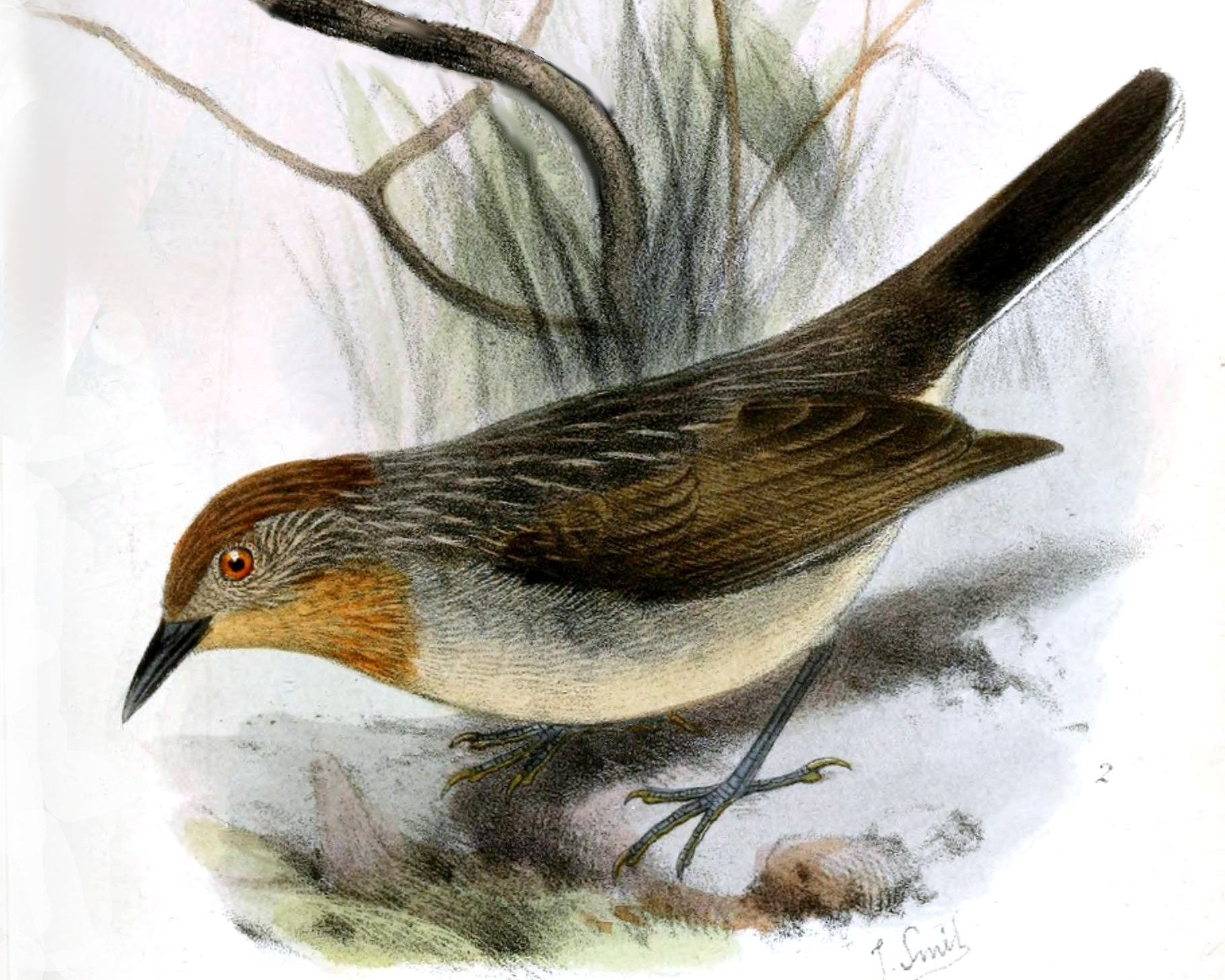 Adult female of Rusty-crowned Babbler